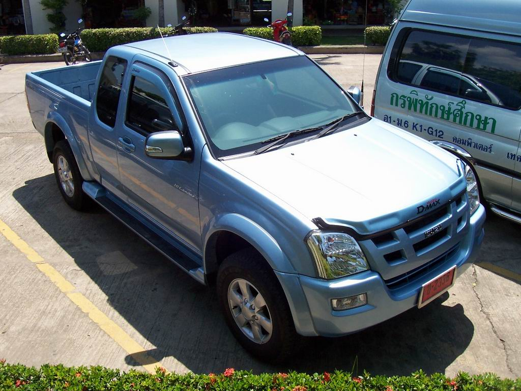 2005 Isuzu D-max Spacecab Hi-lander found at Phetchaburi, Thailand by me in April, 2006